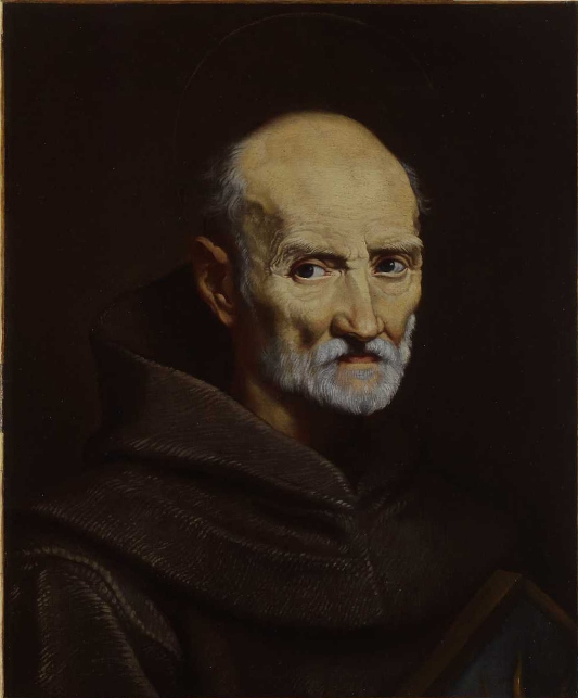 Portrait of Luke Wadding (1588-1657) by Carlo Maretta (1625-1713)